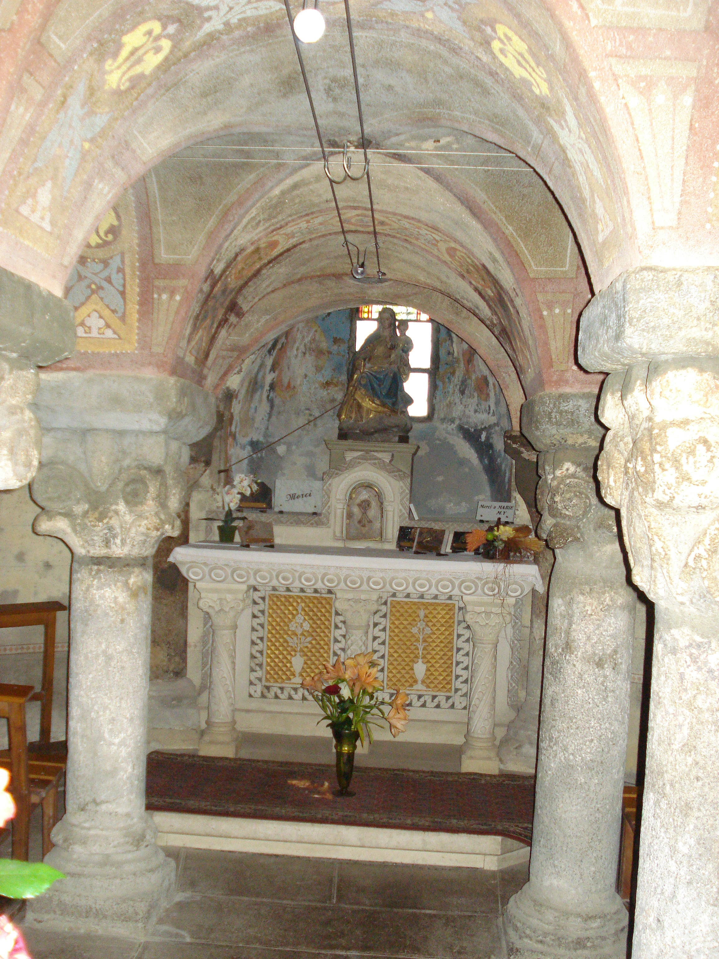 Saint-Jean-Soleymieux (Loire, Fr), crypt of church at Saint-Jean.